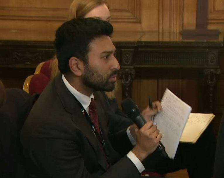 Shehab Khan, Political Journalist from ITV News, at 10 Downing Street